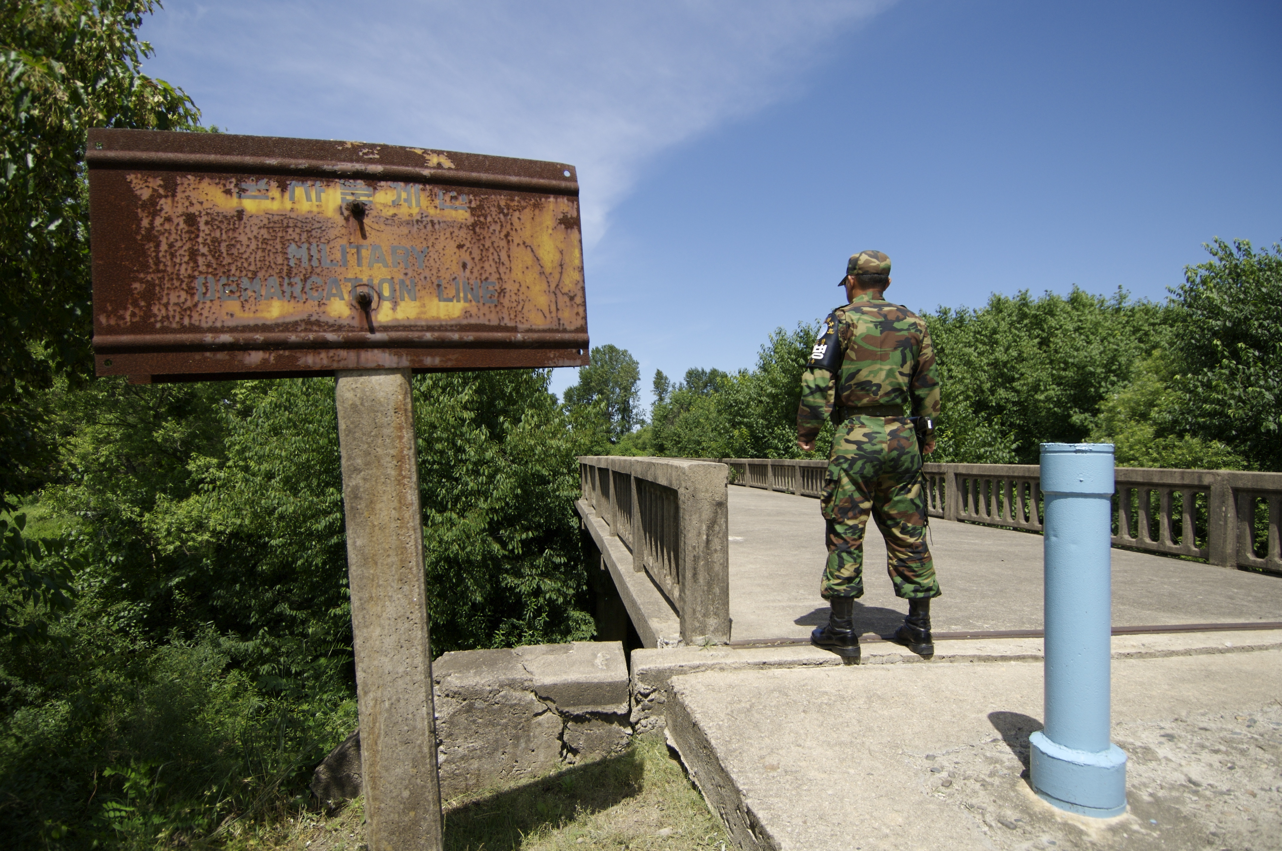 Bridge of No Return. Located in the Korean DMZ. View is from South looking North. U.S. Army photo by Edward N. Johnson Cleared for public release. U.S. Army official Korean Demilitarized Zone image archive